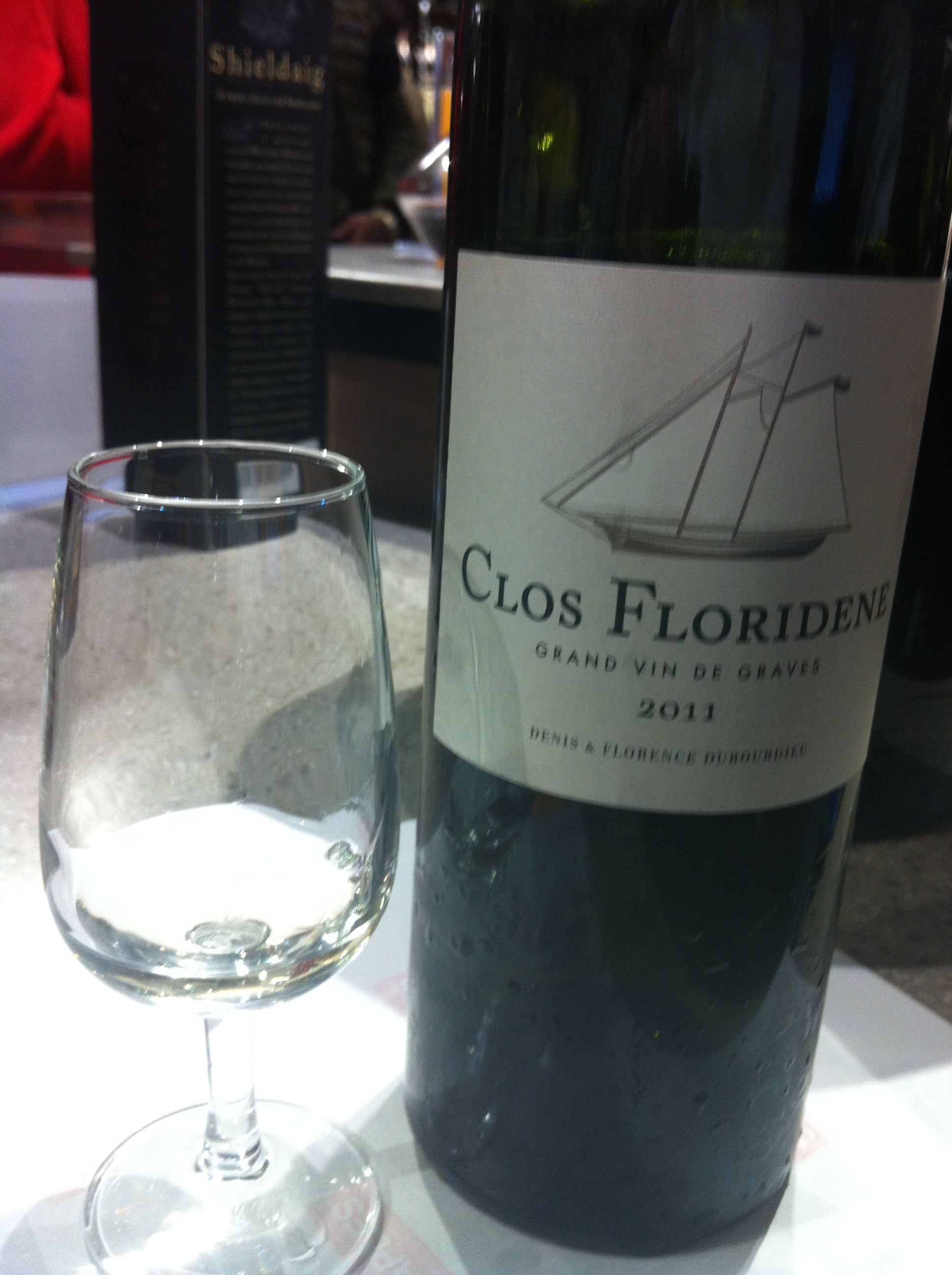 French white wine from the Graves region of Bordeaux made from Sauvignon blanc and Semillon.